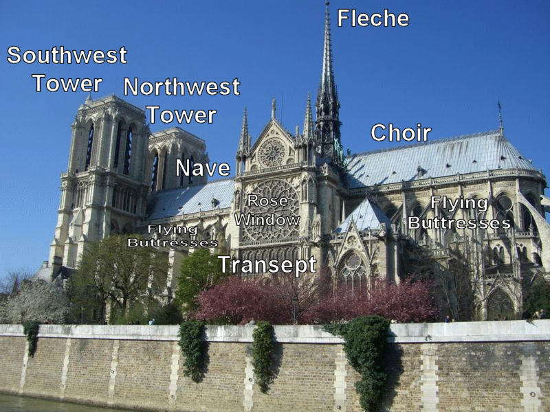 Gothic cathedral - Overview and terms (Notre-Dame de Paris)